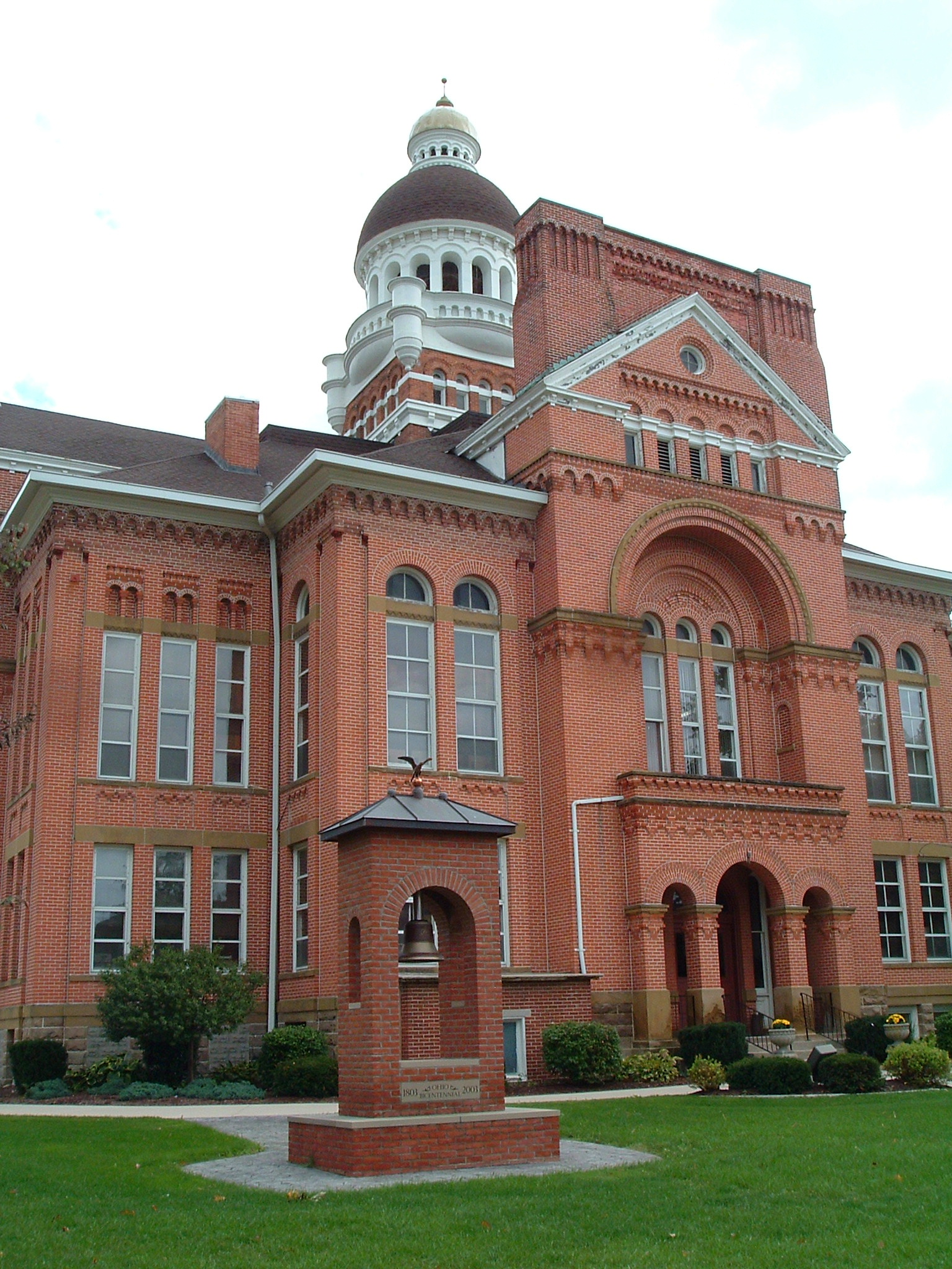 The Paulding County Courthouse in Paulding, Ohio.